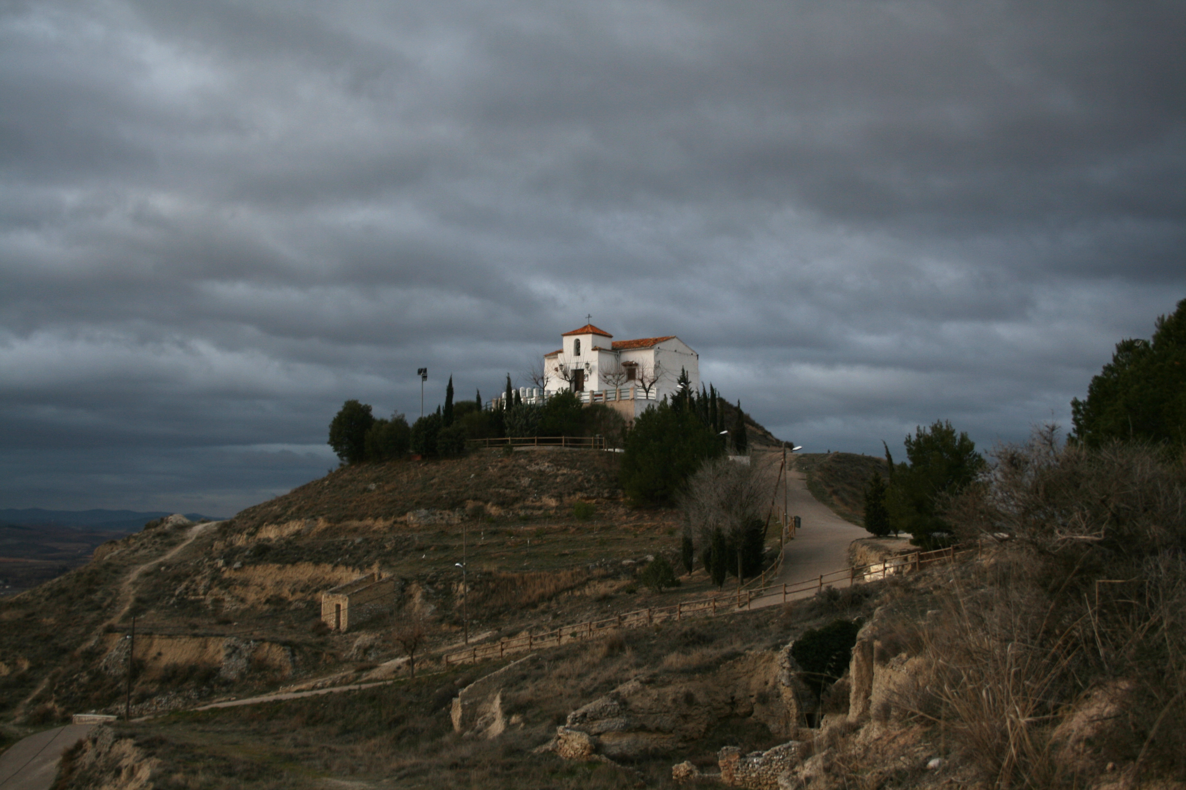 Hermitage of San Roque, Calatayud, Spain